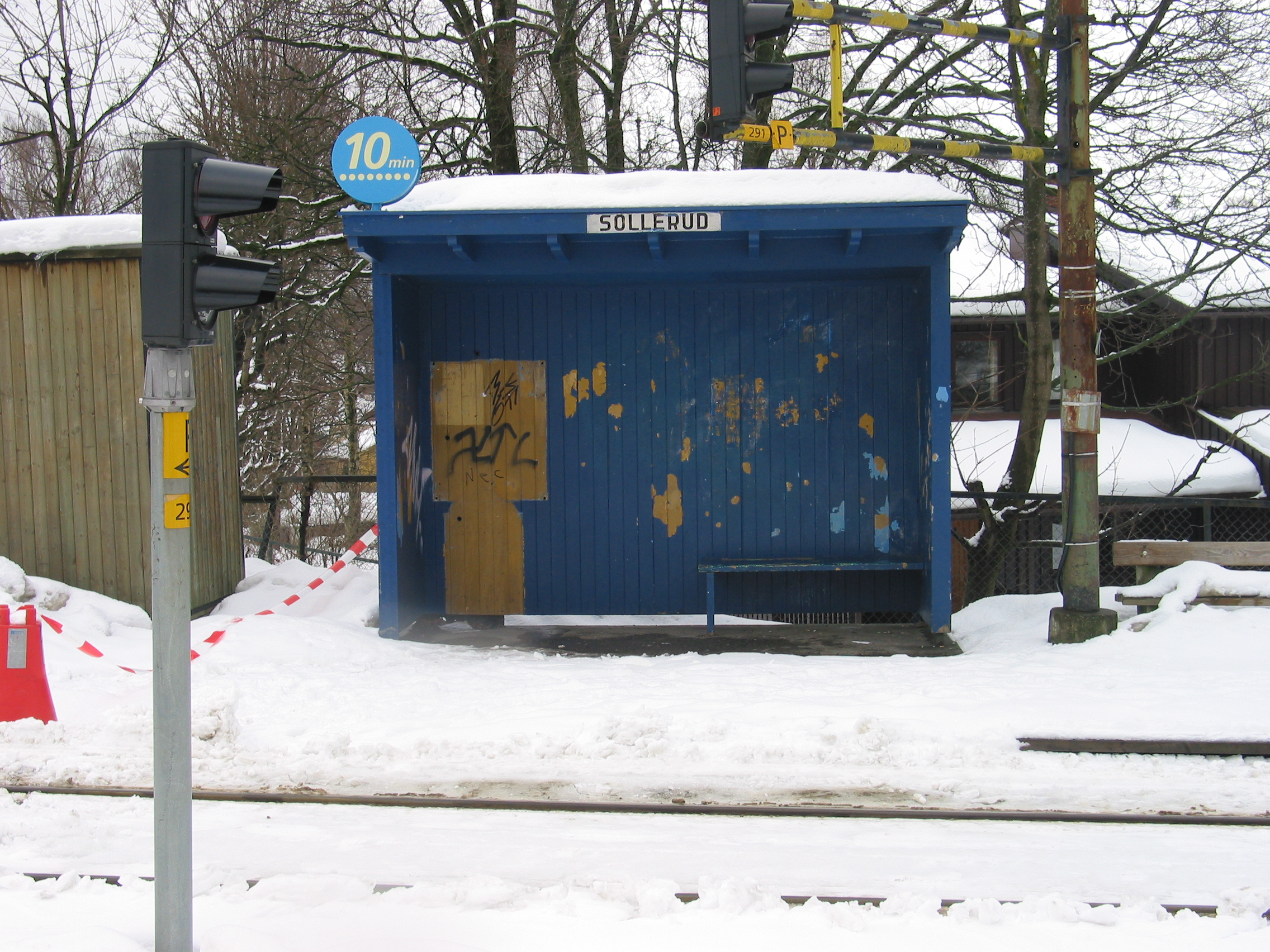 Old-fashioned shack at Sollerud station, on the southern side of the light rail track, March 2009.